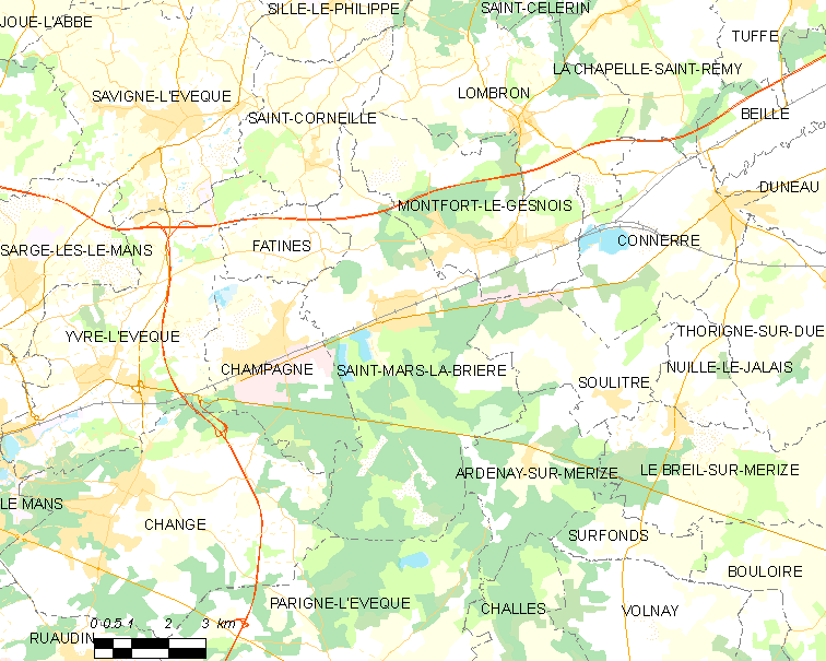 Map of French municipality